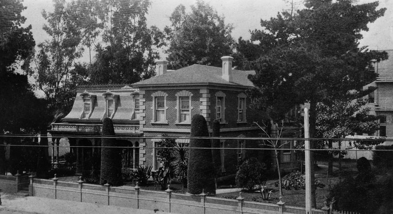 1888 photo of former CA-governor John G. Downey home on 345 S. Main St. in Los Angeles. He died there in 1894.